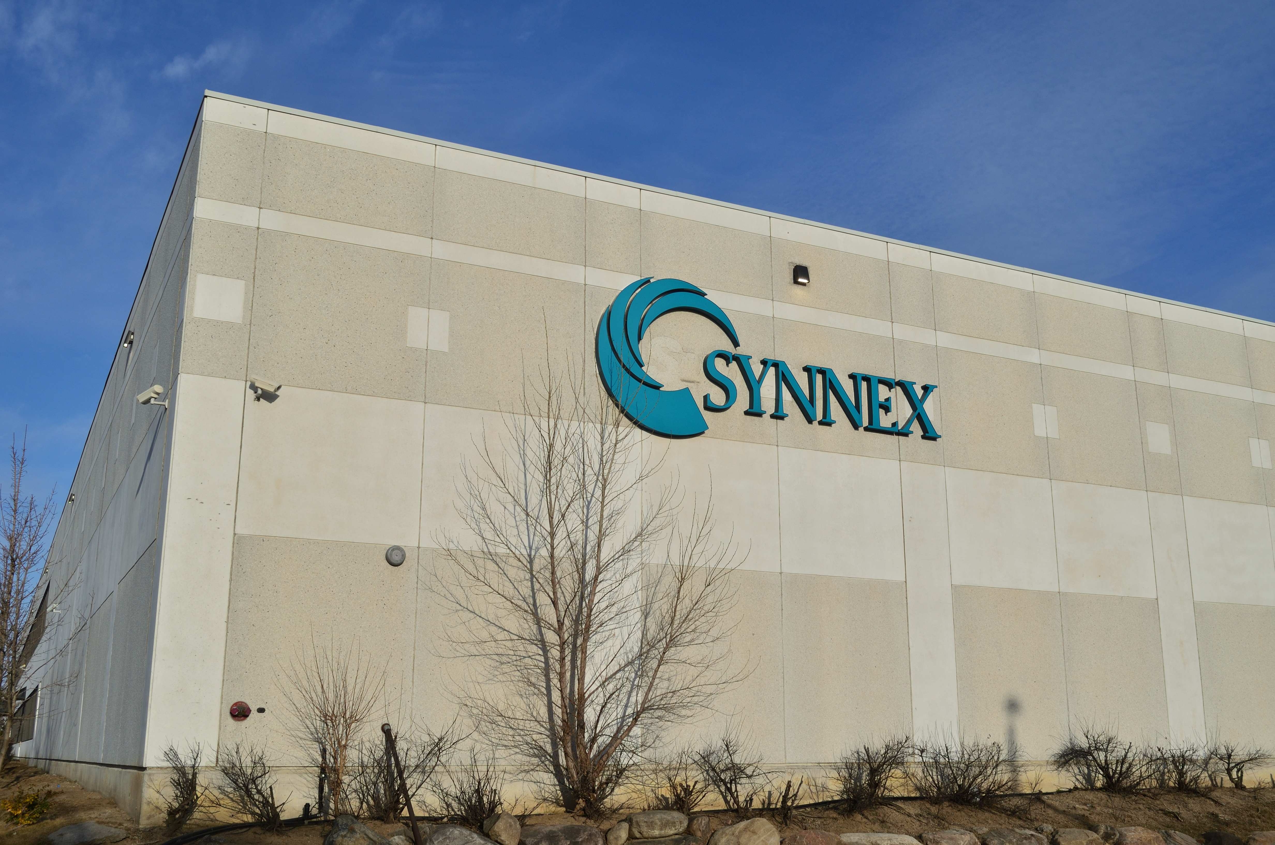 Synnex Canada - Address: 4011 14th Ave, Markham, ON L3R 0Z9